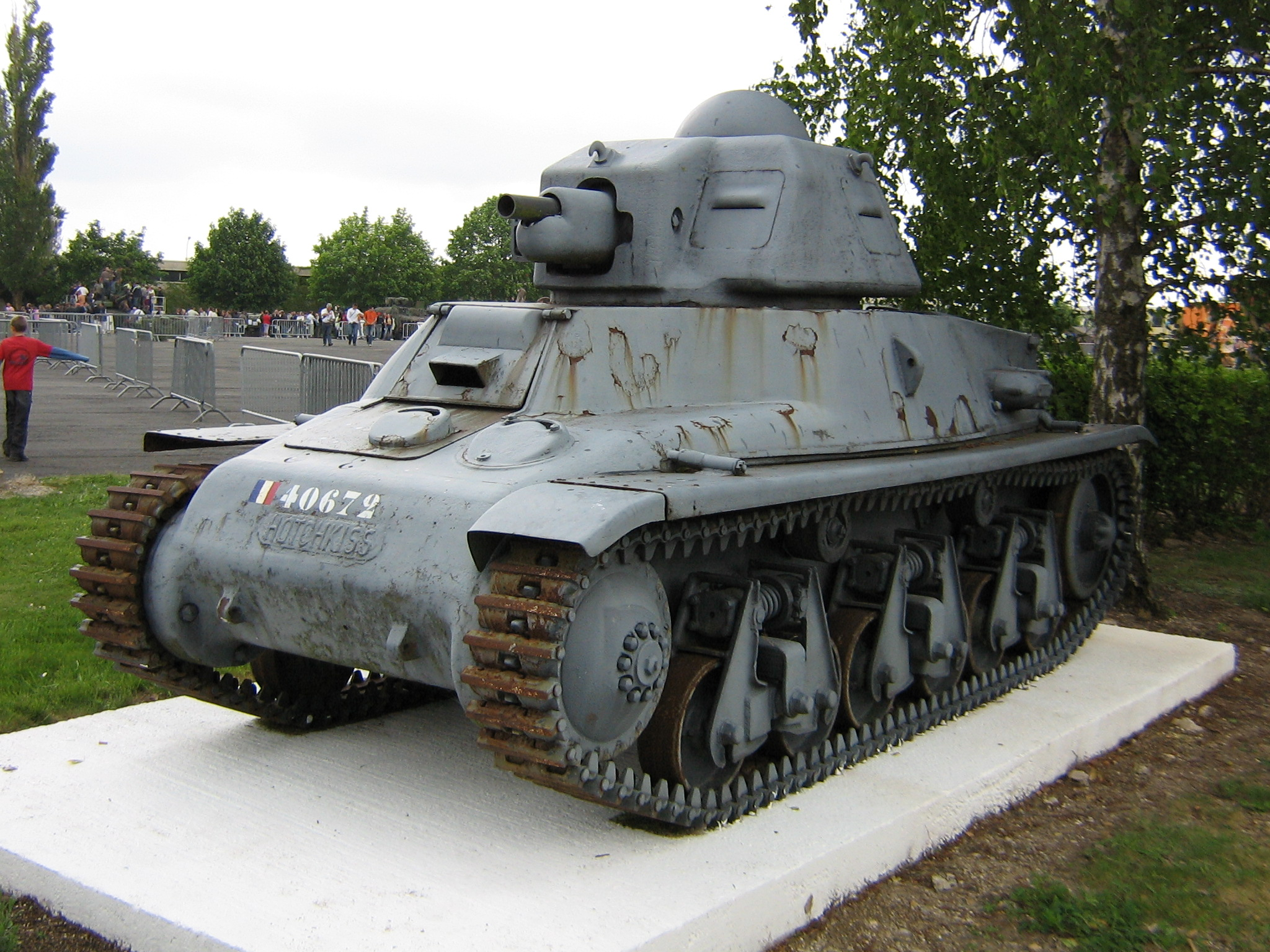 Hotchkiss H-39 tank, carrying a Renault R-35 turret, on displat at the Mourmelon military camp in France.